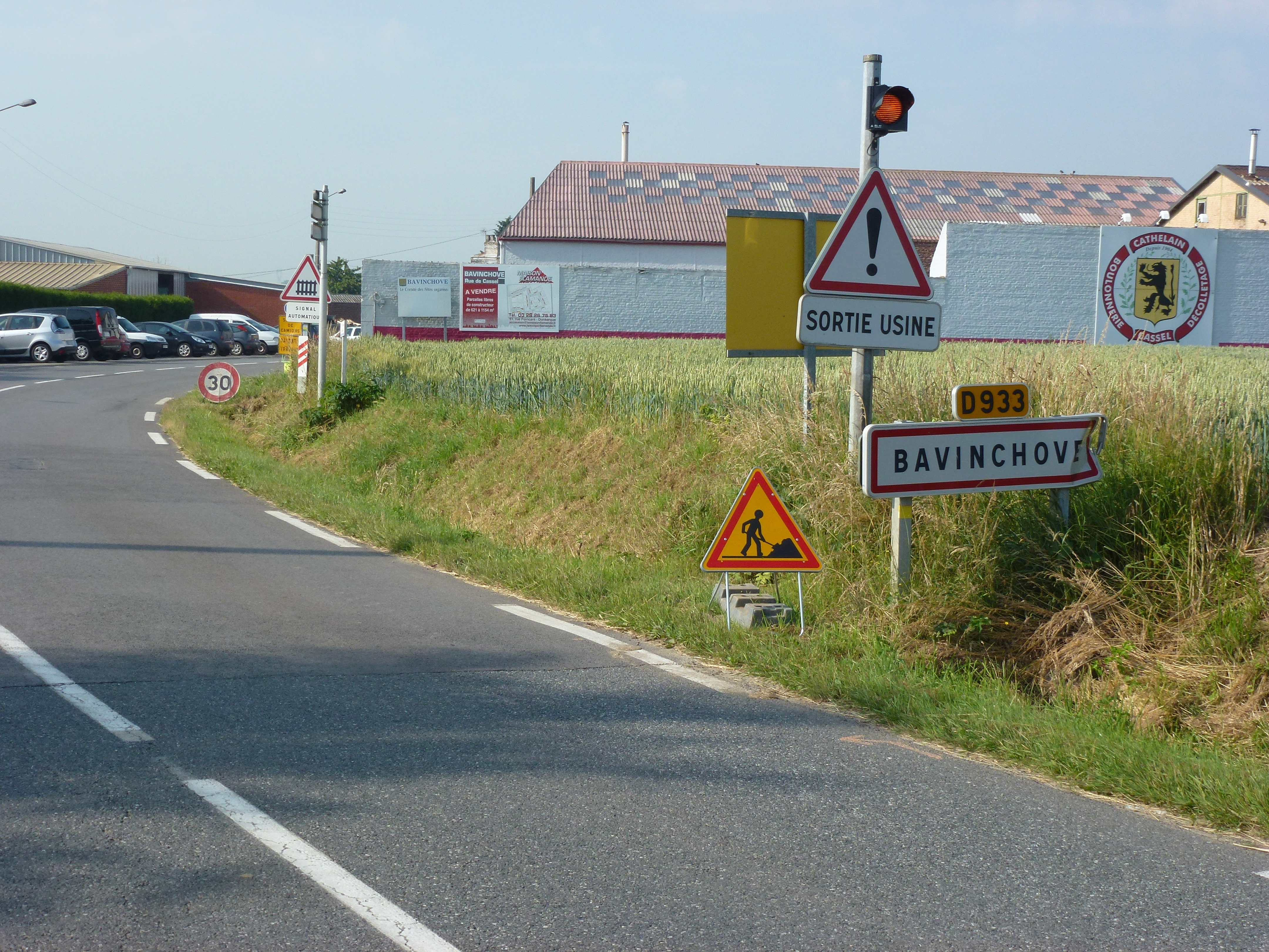 Bavinchove (Nord, Fr) city limit sign